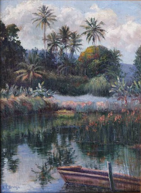 On Waiakea River, Near Hilo, HI by Carrie Helen Thomas Dranga, c. 1920, oil on canvas, 16" x 12"